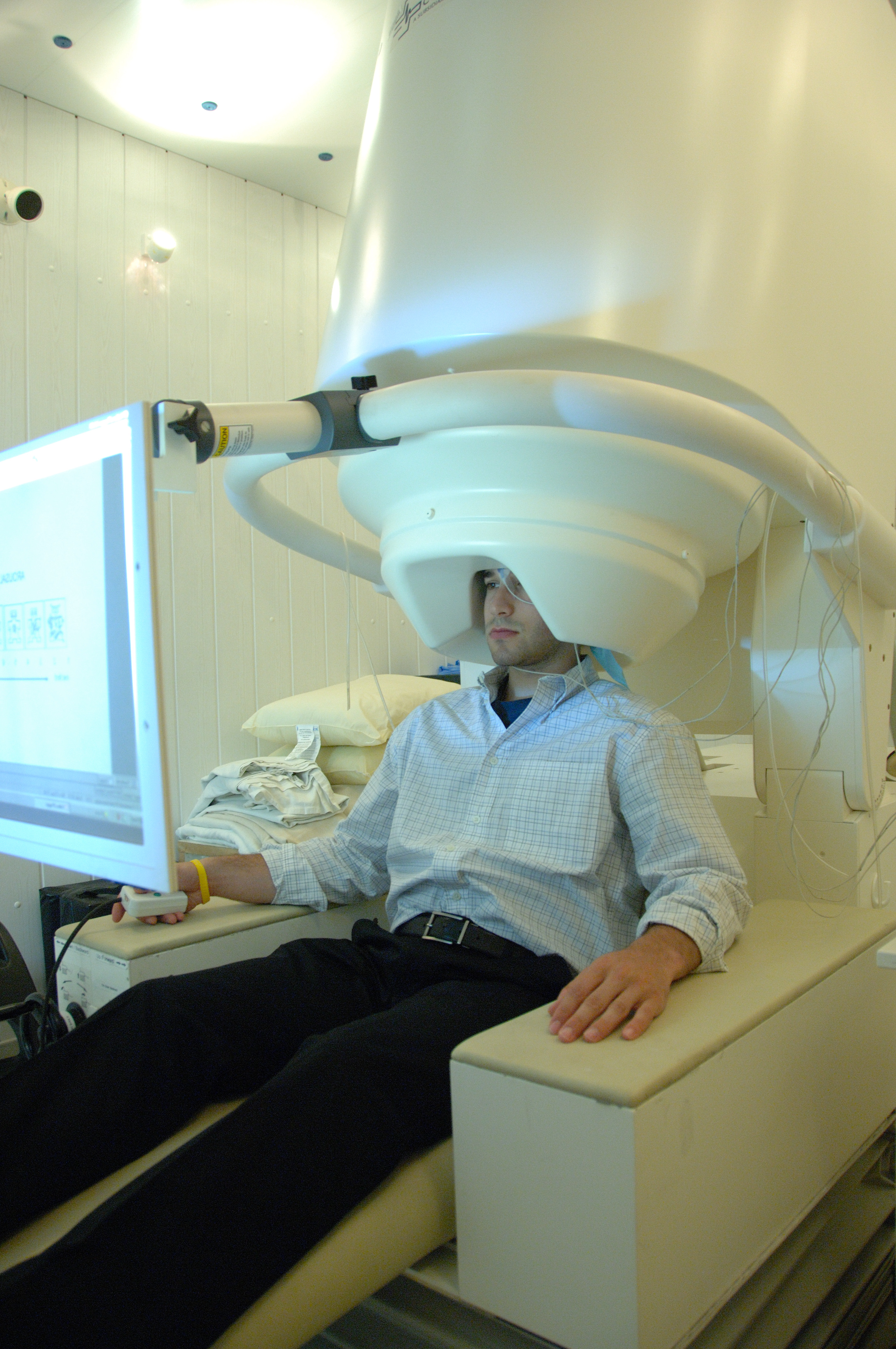 MEG scanner with patient from National Institute of Mental Health. Copyright NIMH images may not be used to state or imply the endorsement by NIMH or by an NIMH employee of a commercial product, service, or activity, or use in any other manner that might mislead. No fee is charged for using the images. However, credit must be given to the "National Institute of Mental Health, National Institutes of Health, Department of Health and Human Services" unless otherwise instructed to give credit to the photographer or other source. NIH images are in the public domain and cannot be copyrighted. Images may be used, linked, or reproduced without further permission from NIH.